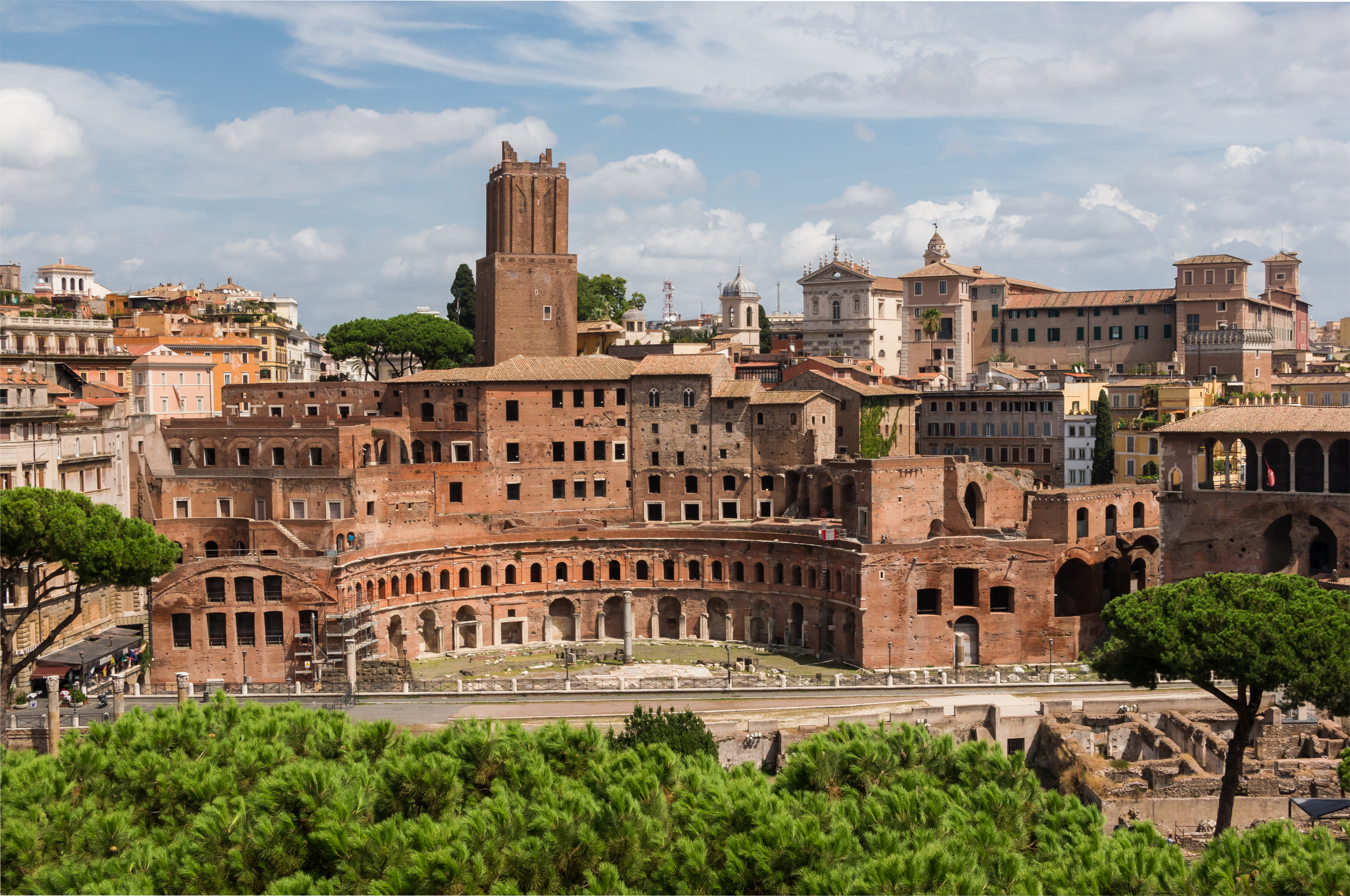 View of the Trajan's market, Fori Imperiali, Rome, Italy.